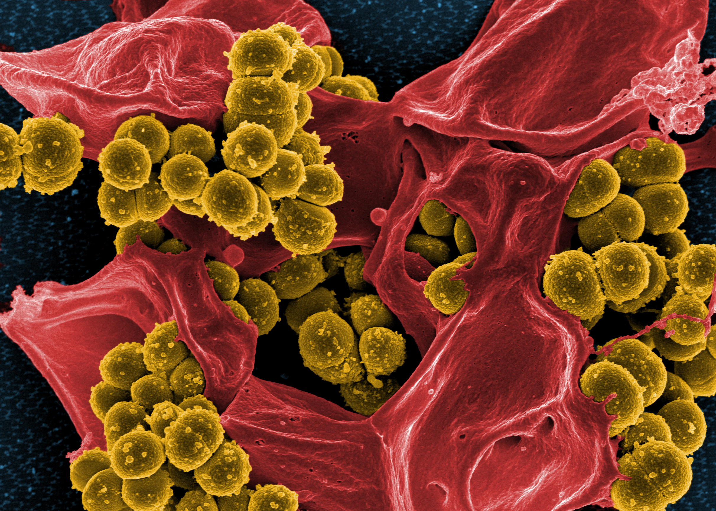 Scanning electron micrograph of methicillin-resistant Staphylococcus aureus and a dead human neutrophil. Credit: NIAID